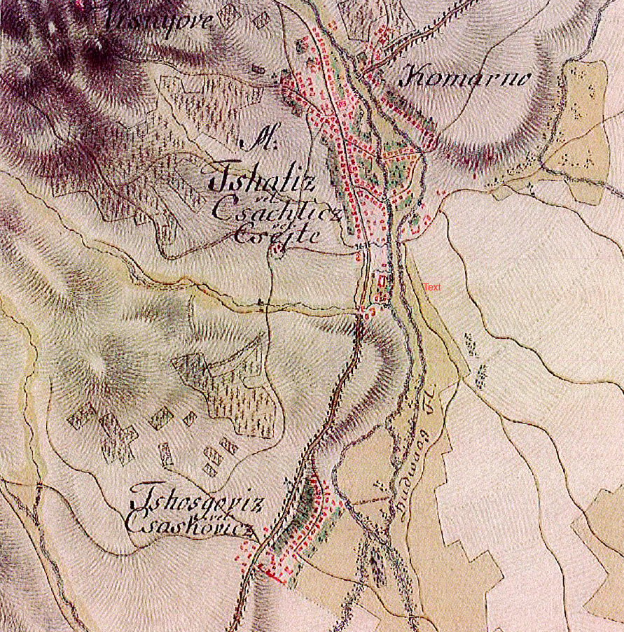 Czastkowitz